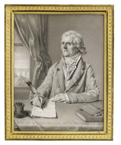 French playwright Jean-François Collin d'Harleville (1755-1806)